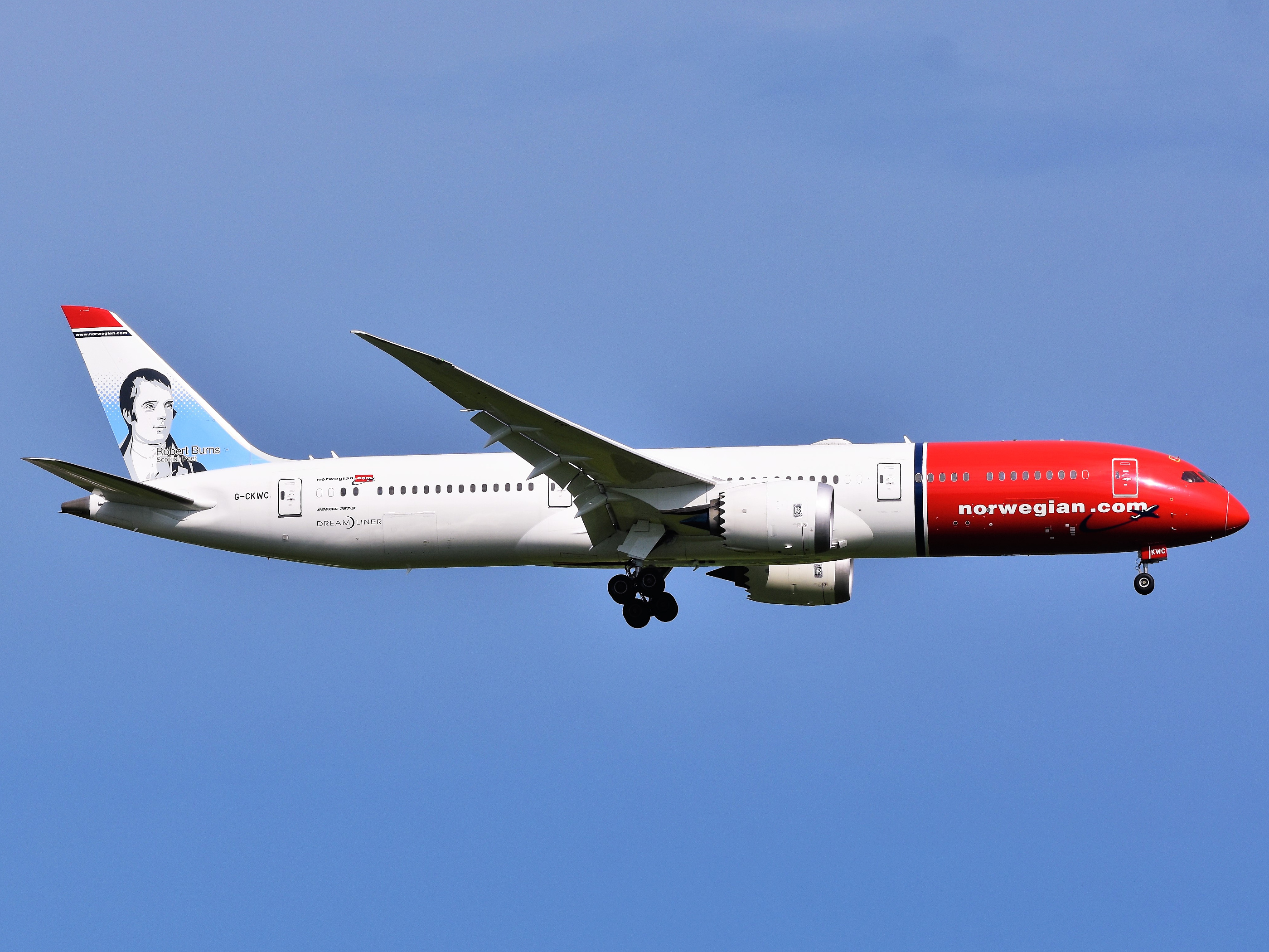 A Norwegian Air UK Boeing 787-9 Dreamliner is approaching JFK Airport Runway 22L..